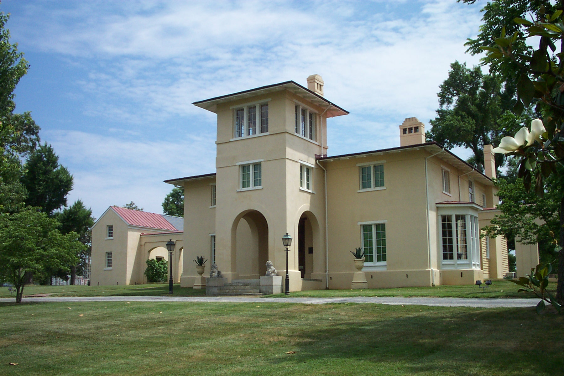 Blandwood Mansion and Gardens — Antebellum Italianate mansion, with gardens, in Greensboro, Guilford County, North Carolina.